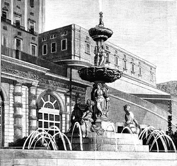 Tritones Fountain in Campo del Moro (Royal Palace of Madrid, Spain)